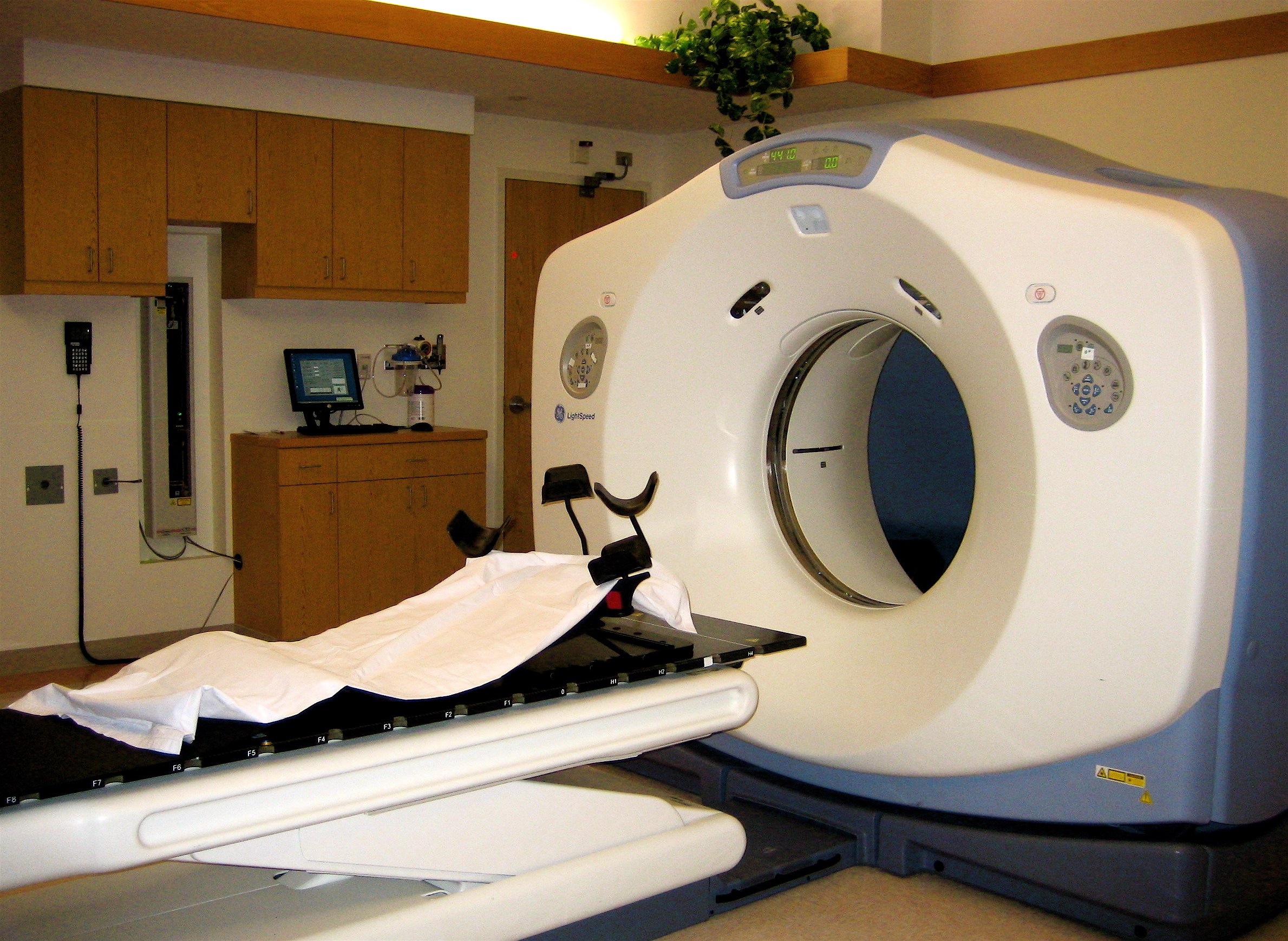 GE LightSpeed Computed tomography equipment. The black supports are to hold your arms still.